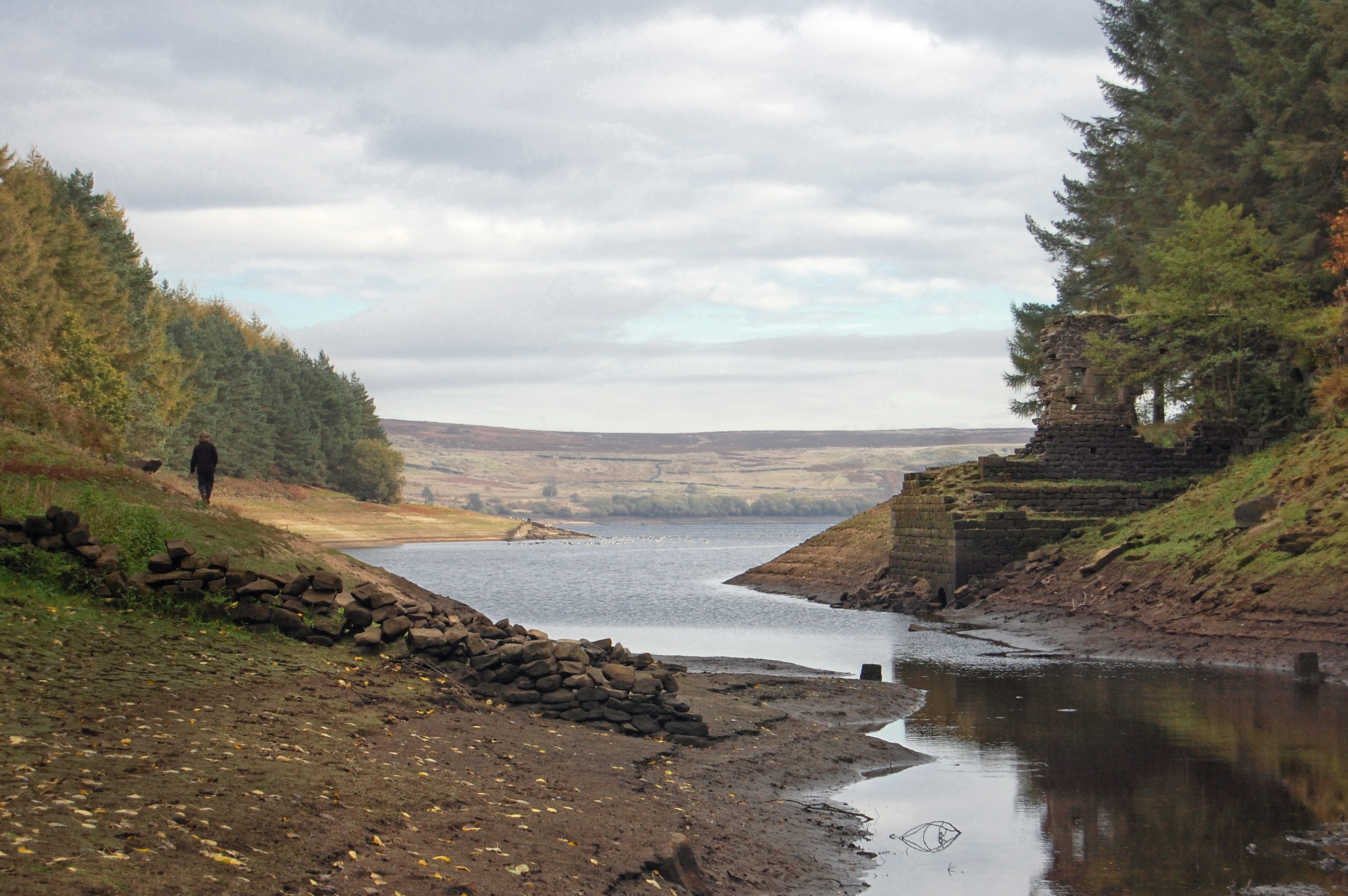 In the high lands of Nidderdale, Yorkshire, the distant sprawling city of Leeds siphons off large quantities of the rainwater that supplies rivers like the Washburn. The place is a wonderful expanse of moorland and hills; an area of outstanding natural beauty. This is Thruscross Reservoir in the Upper Washburn Valley, one of the most striking lakeland settings of all. Beneath these waters lies the submerged village of West End; a settlement that was sacrificed in the sixties so that the valley could be flooded to supply water to Leeds. The reservoir is a strange and fascinating place to walk around; especially when water levels are low. In the above photograph to the right hand side of the shot you can see a derelict old flax mill which was once a part of West End. The photograph can be found in this set of Thruscross images.